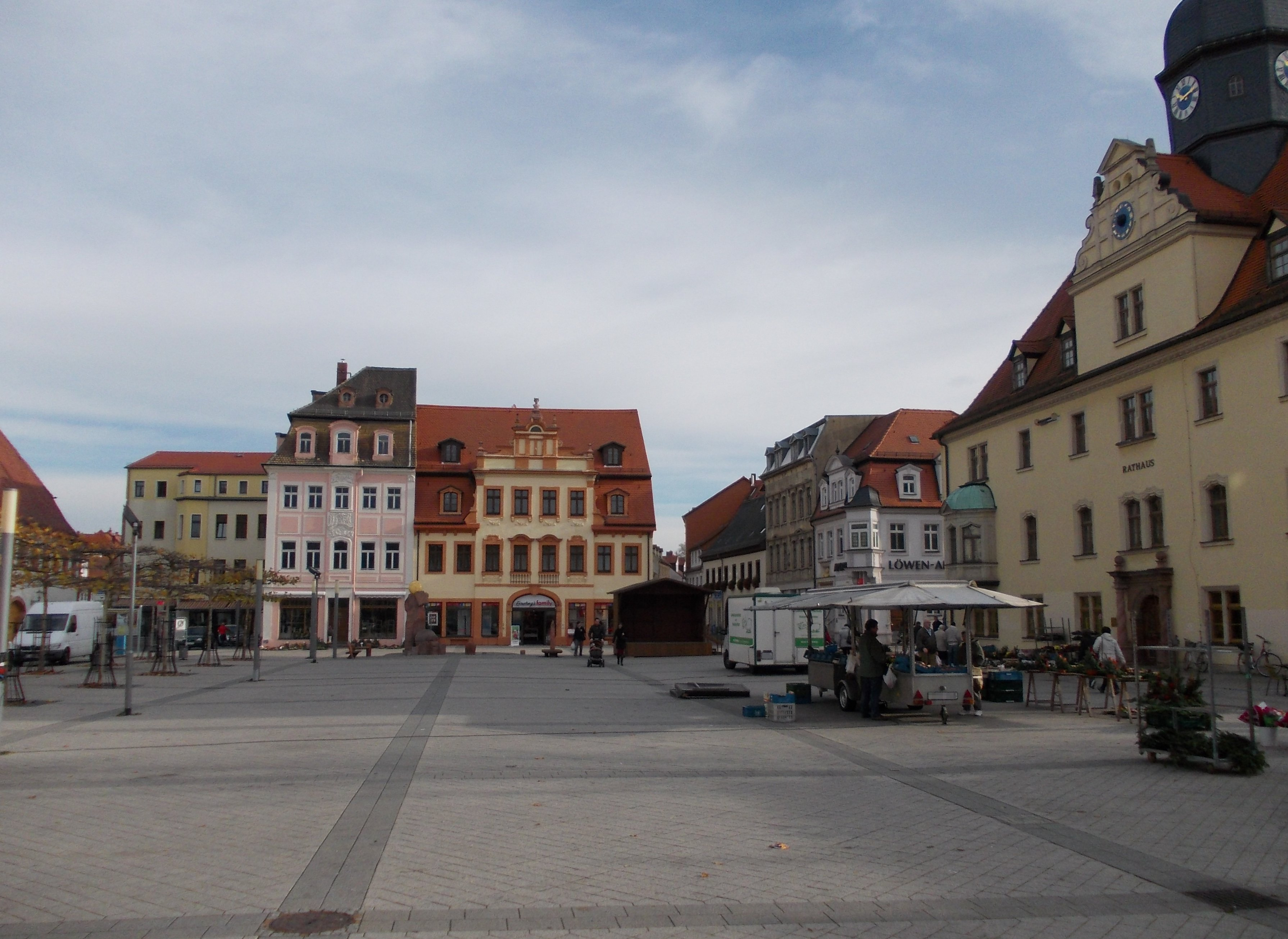 Eastern part of the market square in Borna (Leipzig district, Saxony)